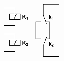 XNOR gate with 2 inputs, implemented with relay.